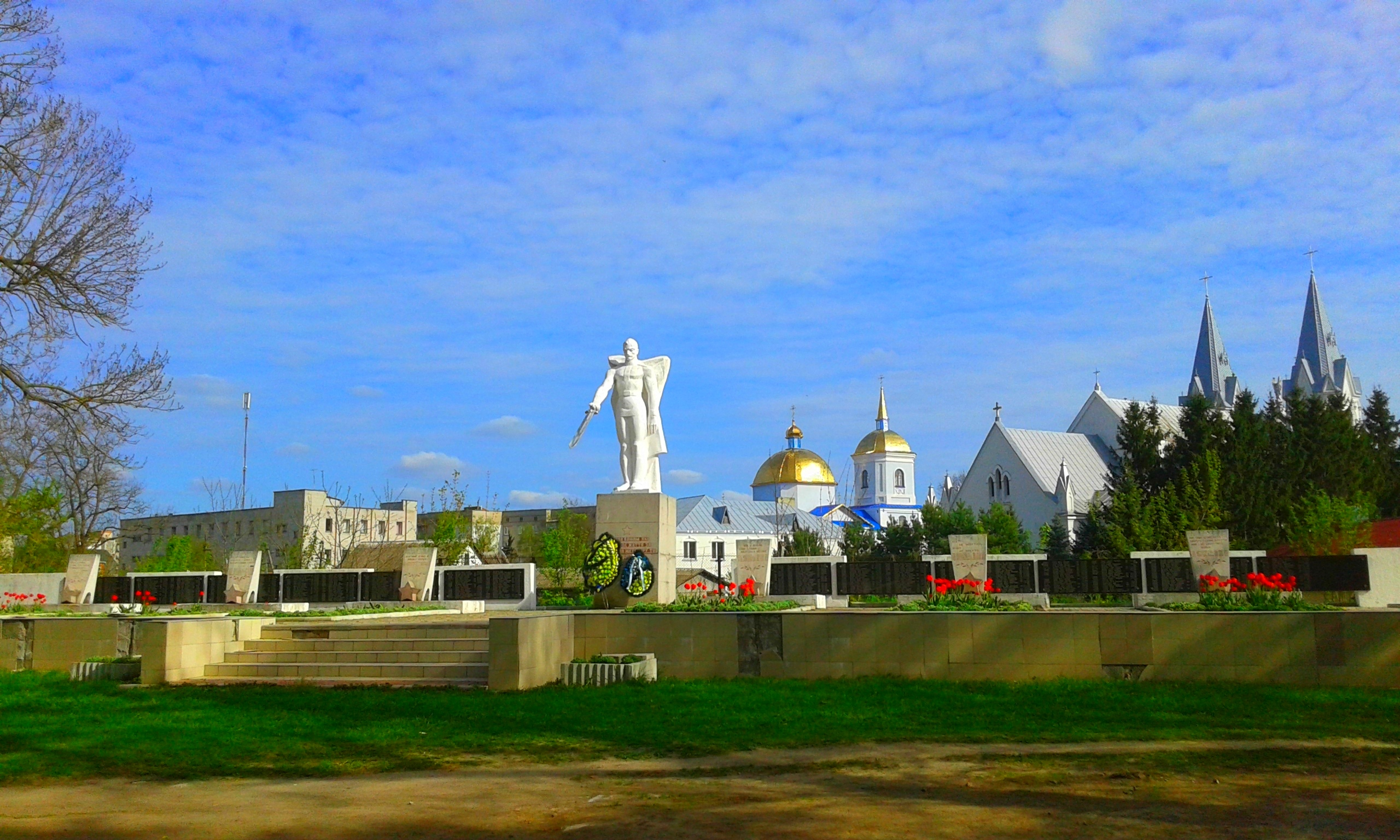 (03) WIKIPEDIA WORLD WAR II MEMORIAL IN TOWN OF BAR VINNYTSIA REGION STATE OF UKRAINE 20150430